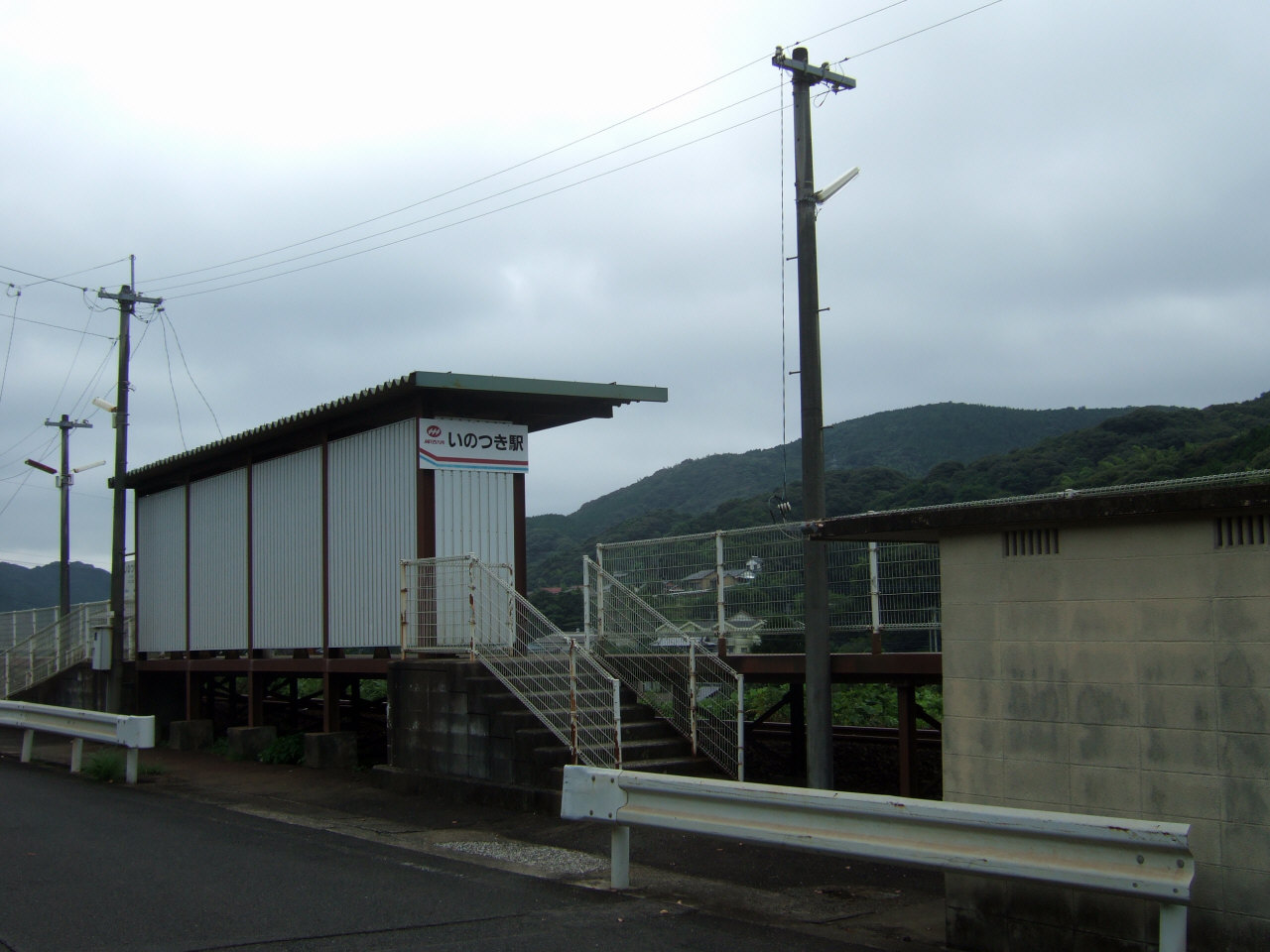 Inotsuki Station(Matsuura Railway Nishi-Kyushu Line)